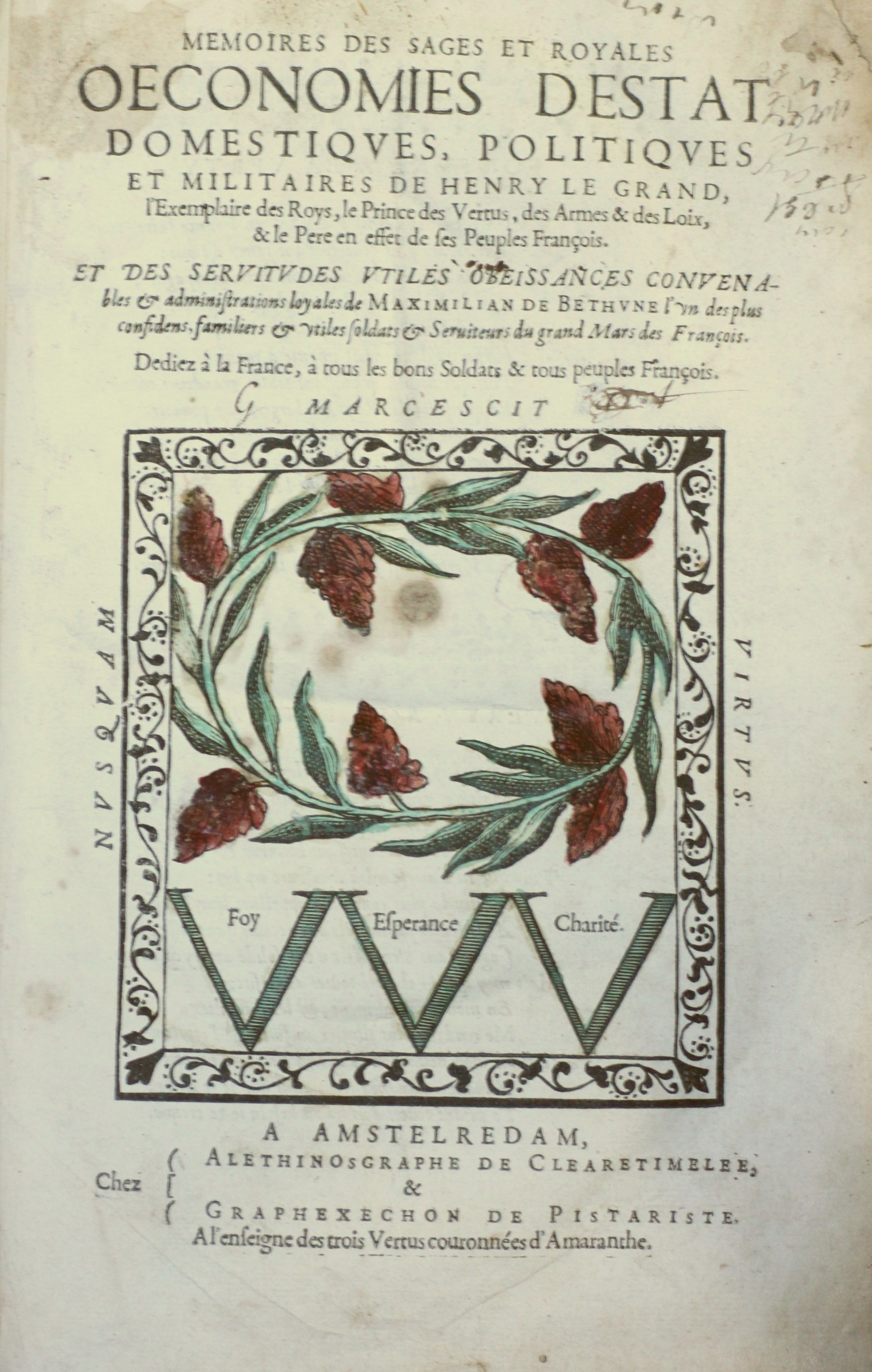 OEconomies d'Estat by Maximilien de Béthune, Sully 1639